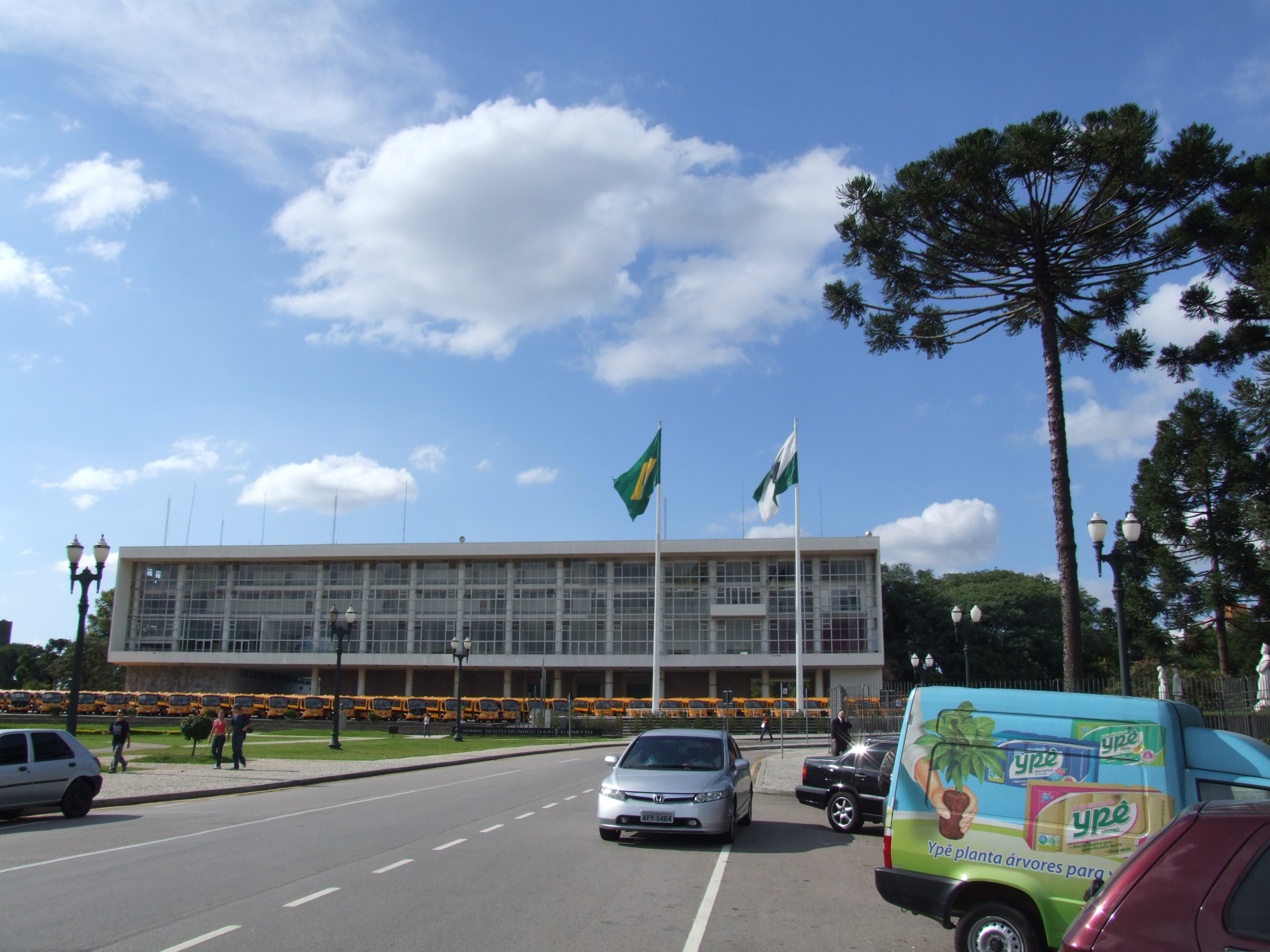 The Iguaçu Palace, in Curitiba, was the government headquarters of the Brazilian state of Paraná until May 14, 2007, when was replaced by the Palace of the Araucárias.